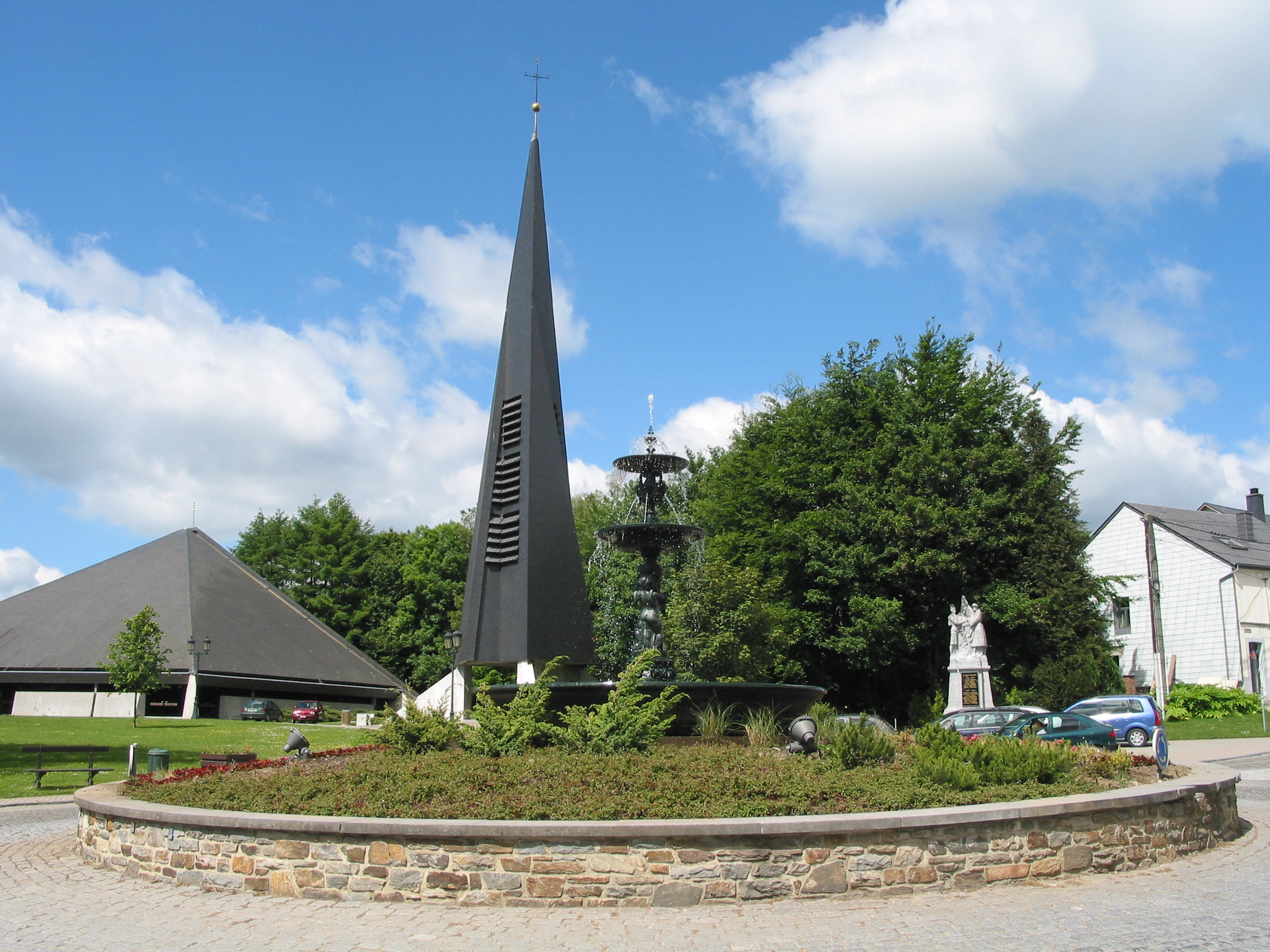 Libramont (Belgium), the Sacred Heart church (1975).